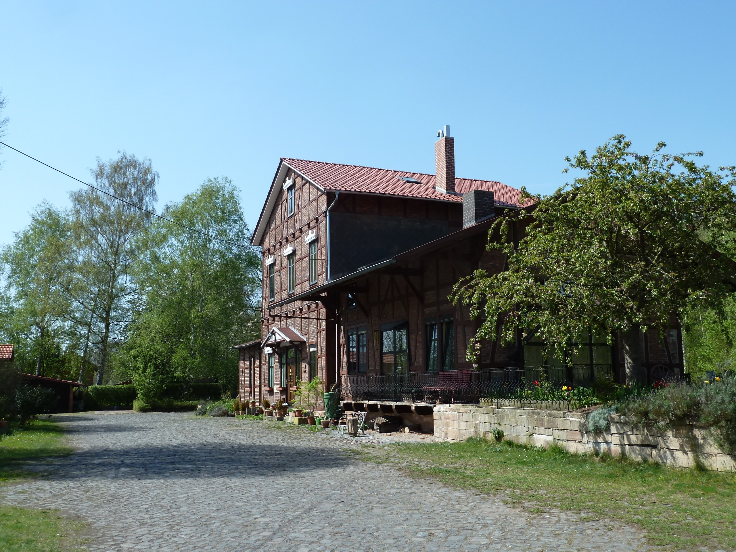 Schwebda railway station at the "Kanonenbahn"